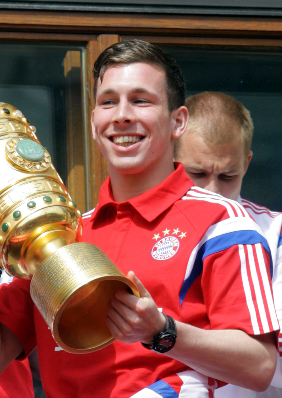 Soccer Player Pierre Emile Højbjerg presenting DFB-Pokal on Munich Townhall Balcony. Note: This is foto is taken by me, it is not the same as found here: This was shot at the same time. My photograph is another shot and I am the photographer. This is not a copyright violation.